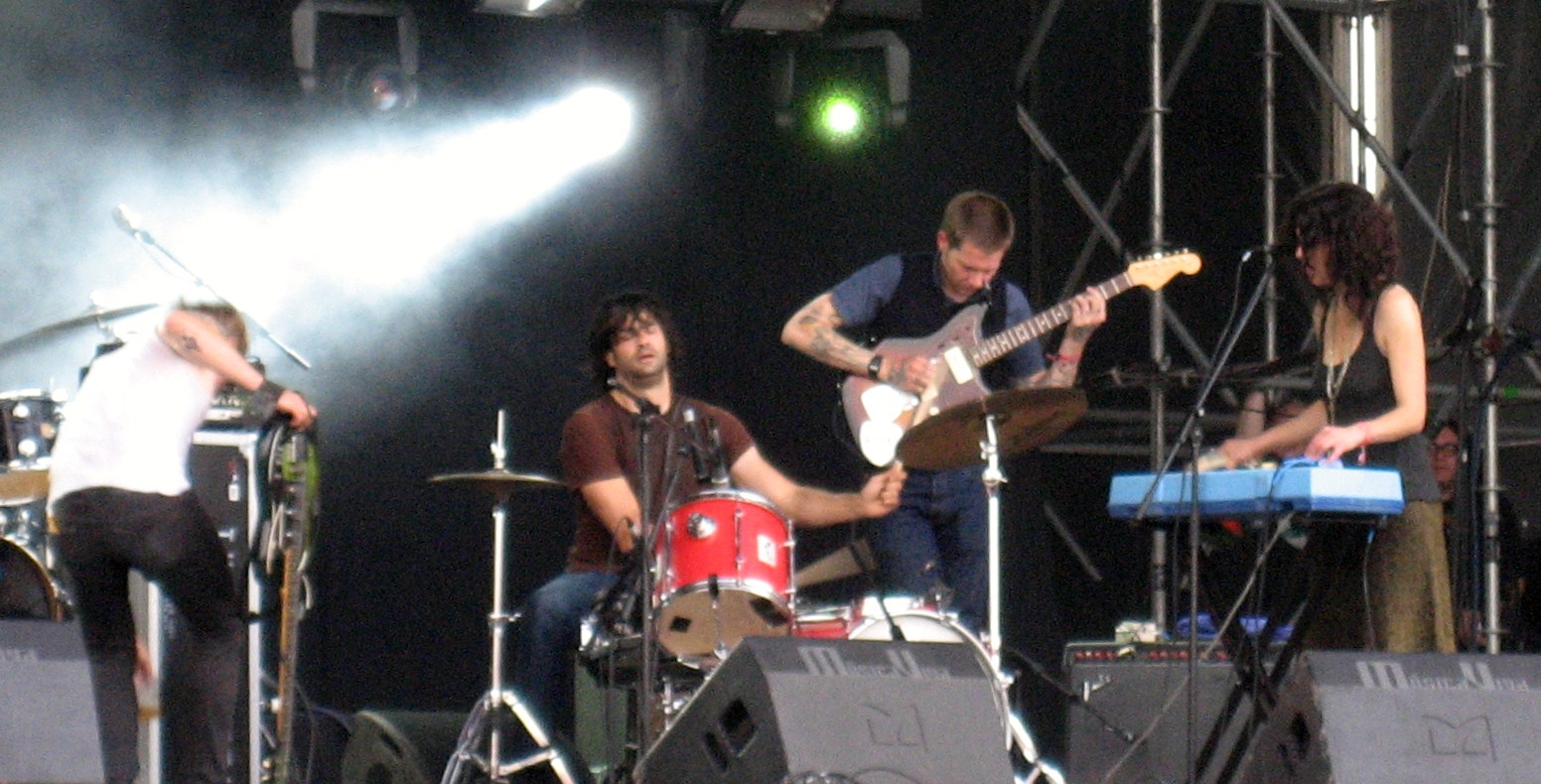 Thee Oh Sees performing live at the Primavera Festival in Barcelona, 2010